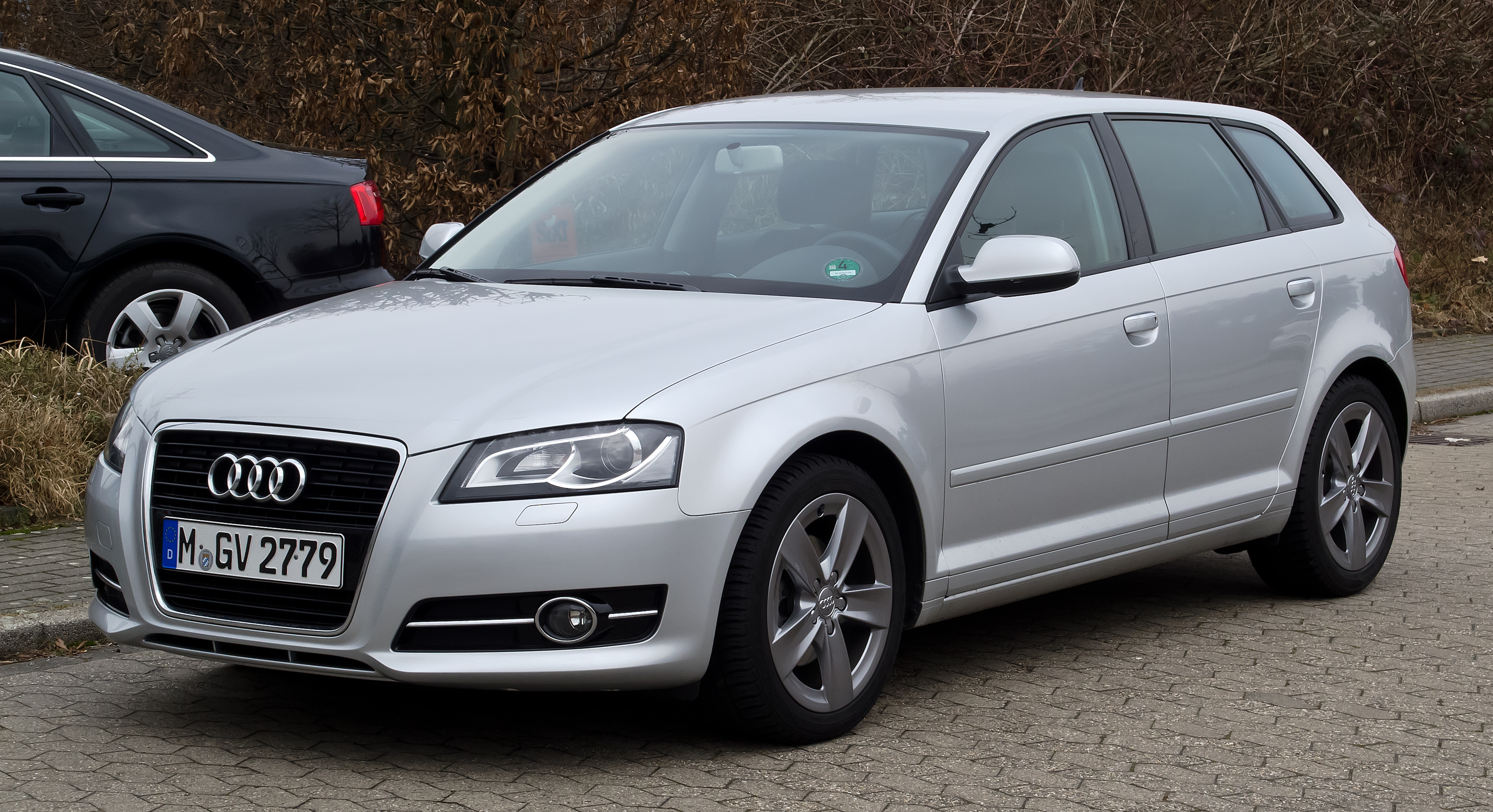 Audi A3 Sportback TDI Ambition (8PA, 3. Facelift)